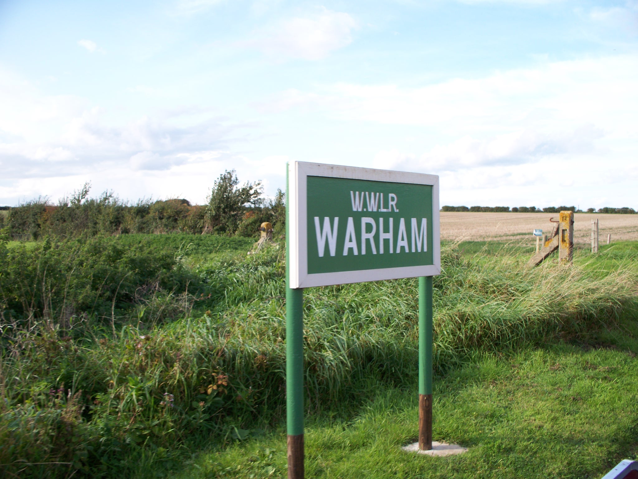 The station sign at Warham station.